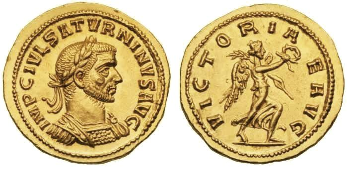 Saturninus, usurper, AD 281, Aureus, Antioch (?) mint. Obv.: IMP C IVL SATVRNINVS AVG, laureate, cuirassed bust right. Rev.: VICTORIAE AVG, Victory advancing right, holding wreath and palm. RIC V/2, 591 (same obverse, different reverse die).